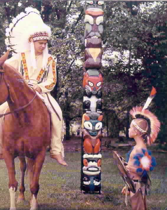 A photograph of Steven Ittel (on horse) and Rickie Briegel in front of the totem pole at Camp Campbell Gard carved by Robert McClosky when he was a counselor there.